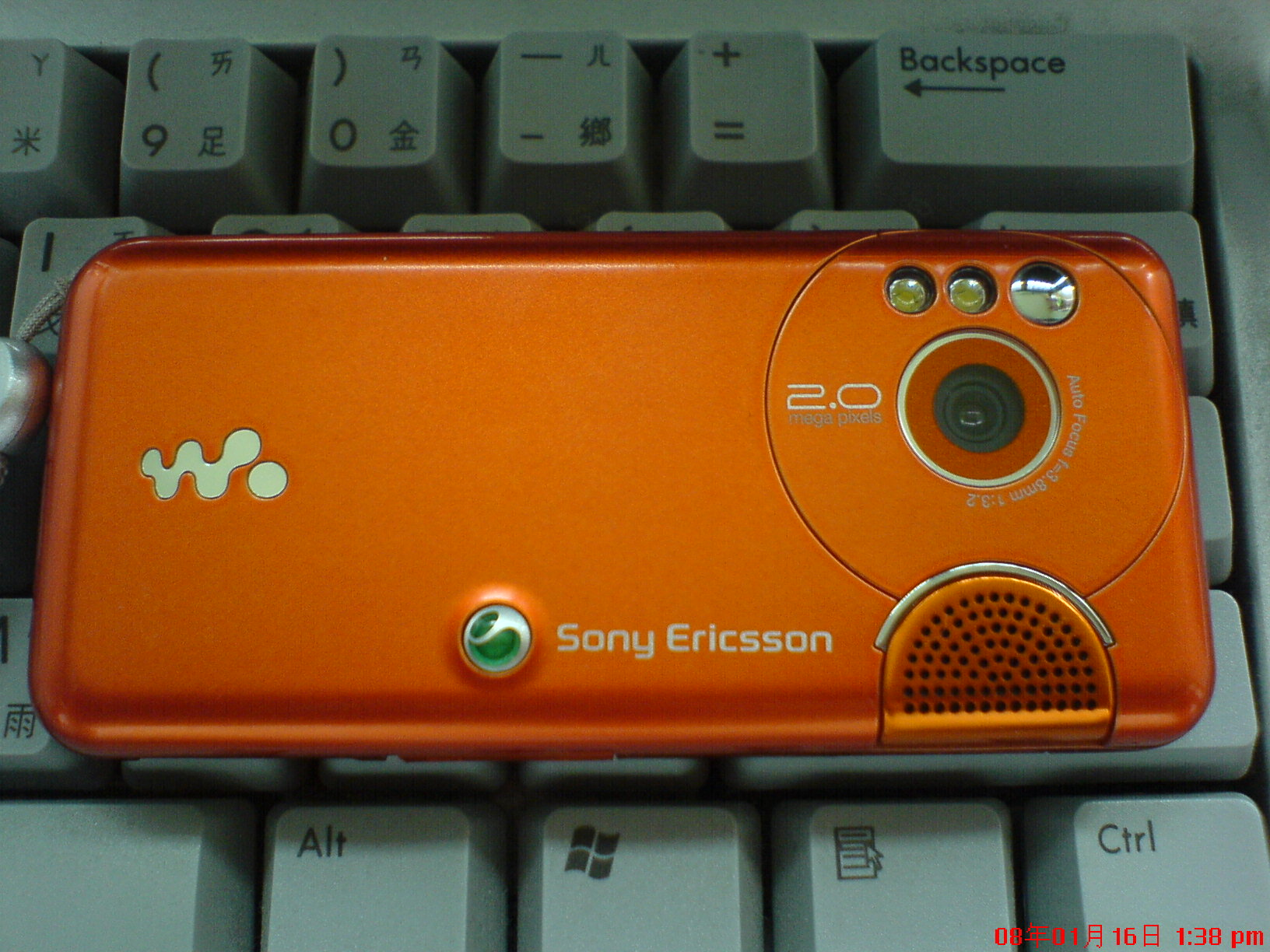 Sony Ericsson W610i